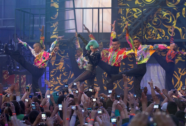 Lady Gaga performing Edge Of Glory at 2011 Much Music Video Awards